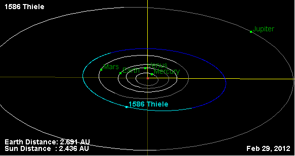 1586 Thiele orbit, and his position on 29 Feb 2012 (NASA Orbit Viewer)